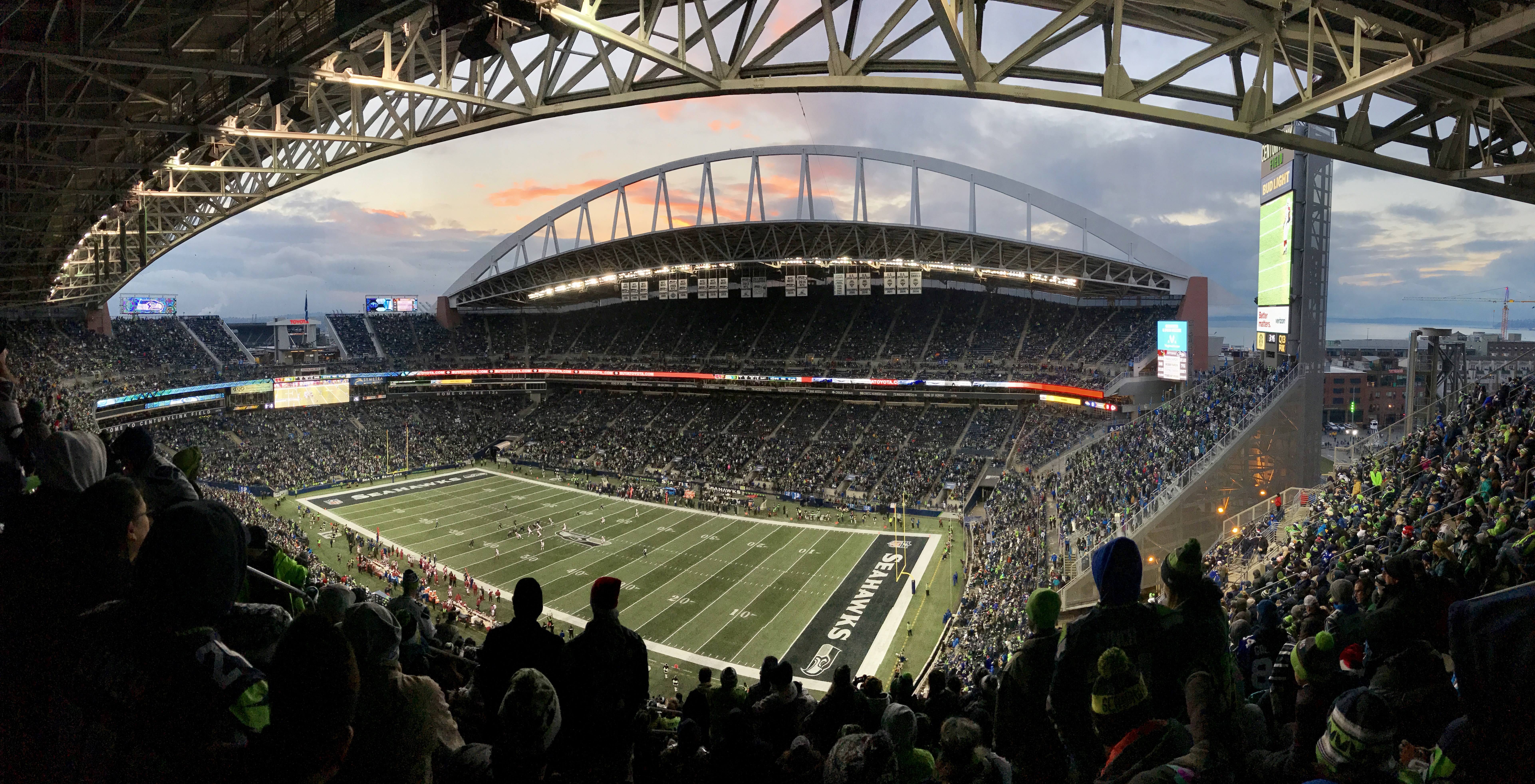 Seahawks vs. Cardinals @ CenturyLink Field